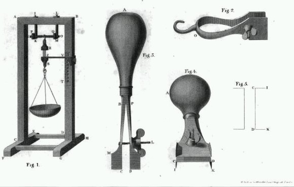 Drawing of lab equipment of Adair Crawford, the Irish scientist